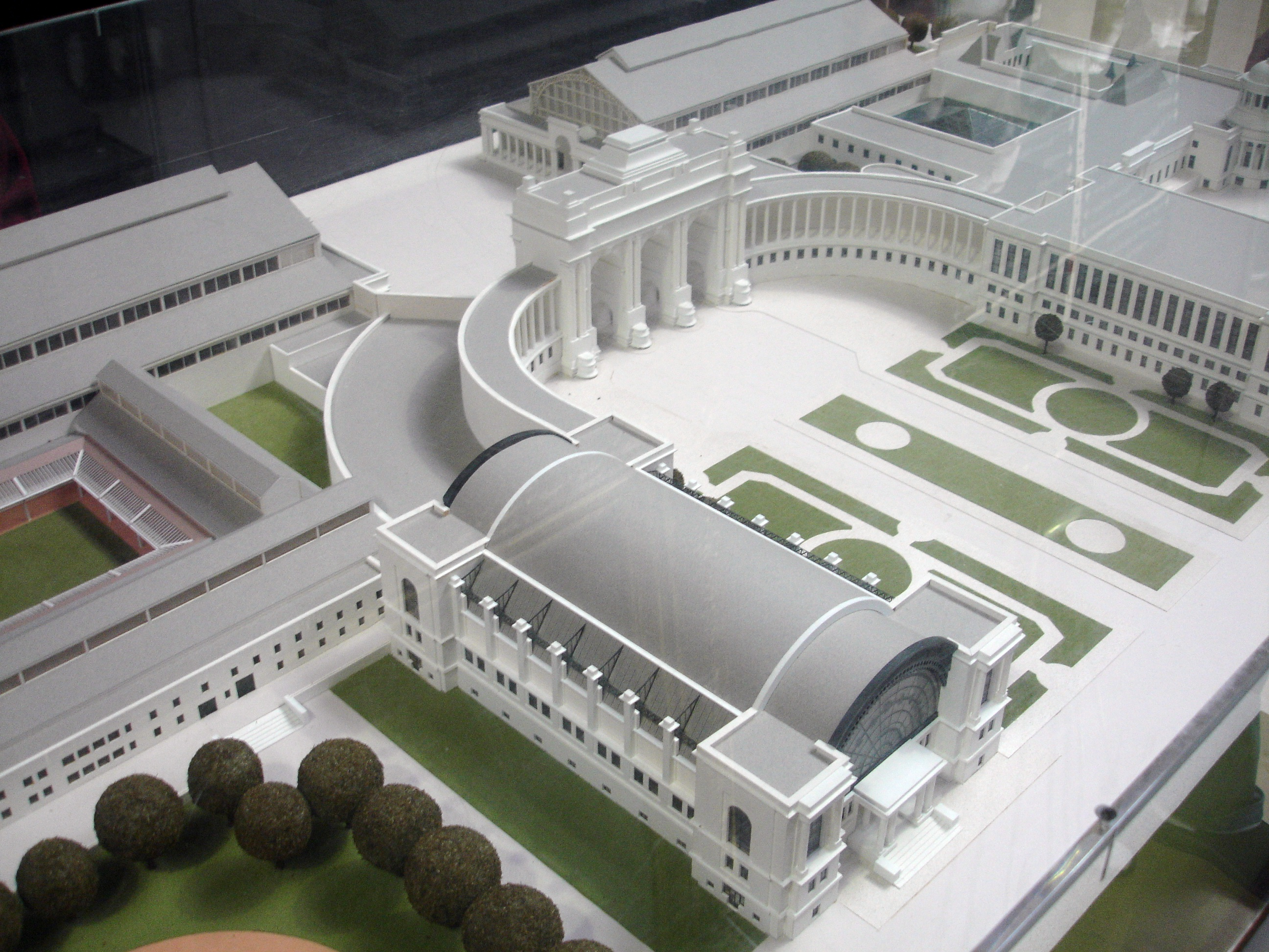 own work